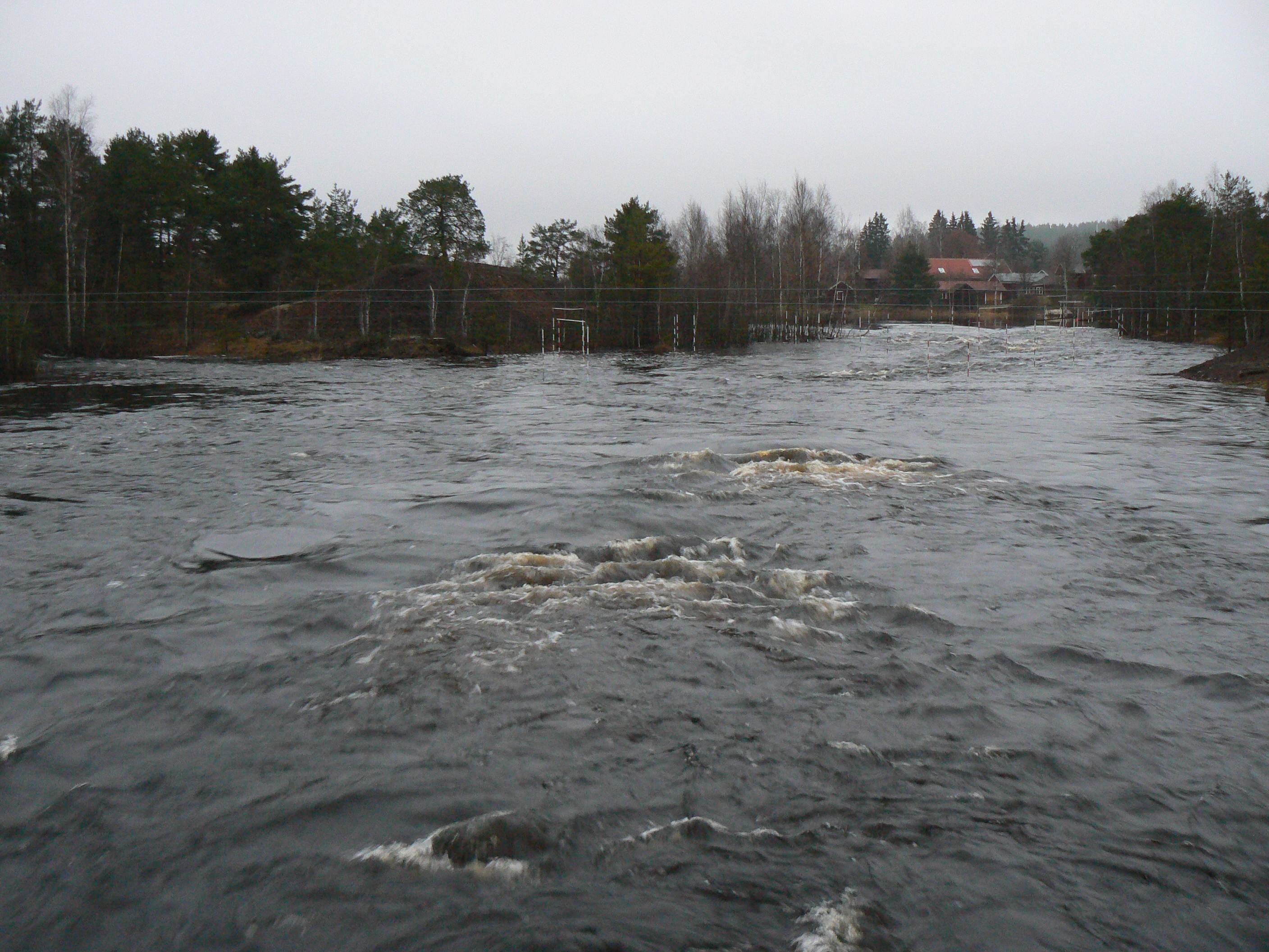 The Sundborn river (Sundbornsån), part of "Svärdsjövattendraget", in Sweden.